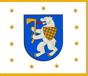 Flag of Šiauliai district